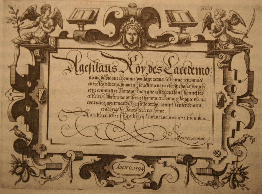 Salomon Henrix, page number 10 from Theatrum artis scribendi by Hondius (1696). Rough transcription of text: Agesilaus Roi des Lacedemo: niens, disait que l'homme voulant acquerir bonne renommee entre les vivans devoit assiduellement parler a choses bonnes, et ne commettre Jamais sinon que celles qui sont honnestes et licites. Abstinence conserve l'homme en bonne et longue vie: au contraire, gourmandise gaste le corps, rompt l'entendement, et abbrege les Jours de la personne. A a a.b b.c c.d d.e e.f f.g g.h h.i ij.k l.m.n n.o o.p p.q q.r s.t.u v.w.x Henrix scripsit ANNO,1594